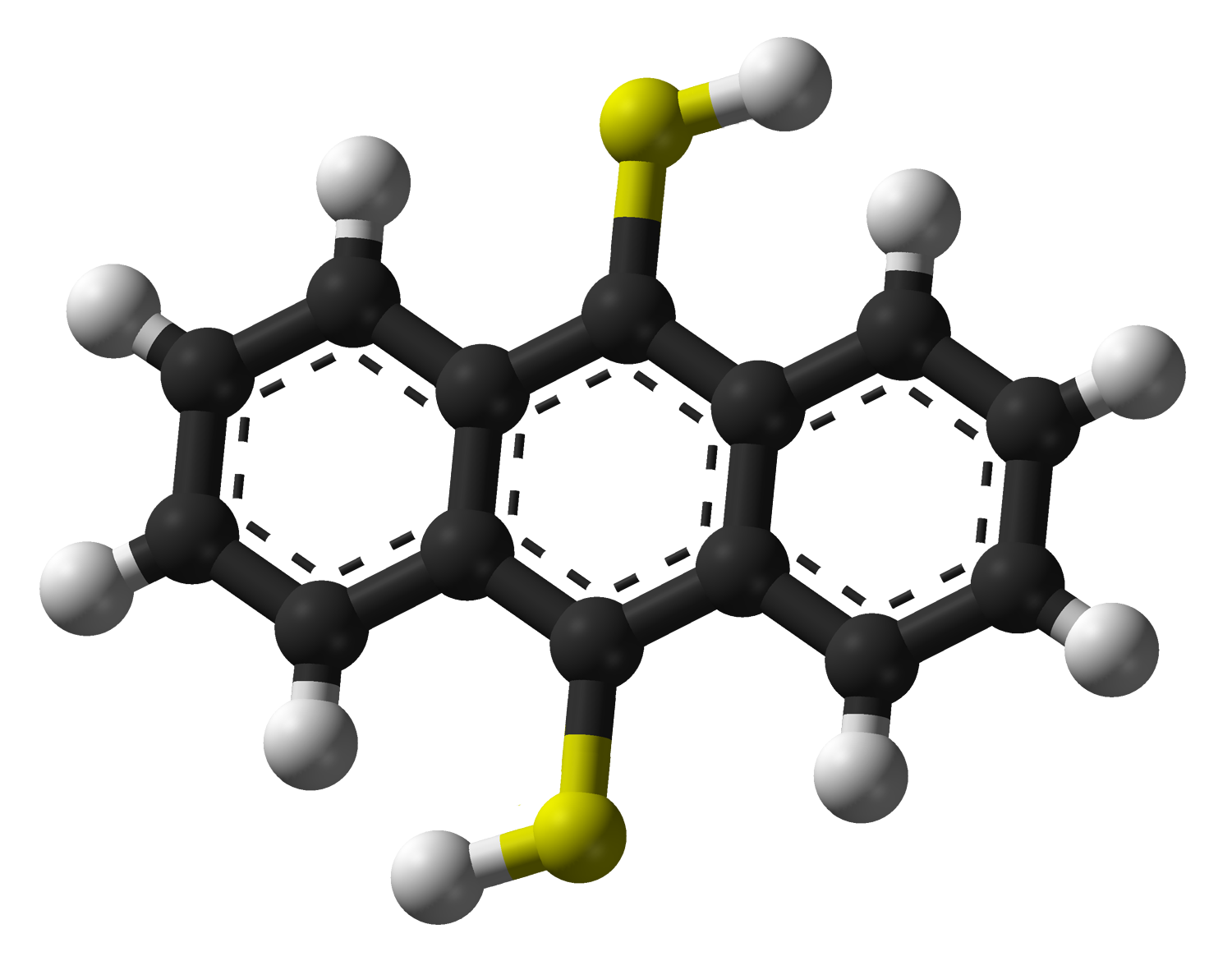 Ball-and-stick model of the 9,10-dithioanthracene molecule.